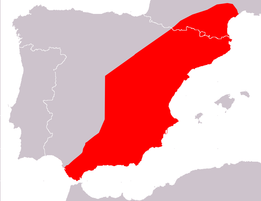 Psammodromus jeanneae distribution map.